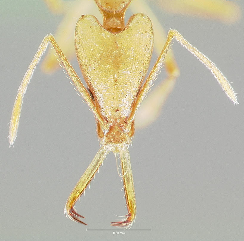 Head view of ant Strumigenys apios specimen casent0005487.